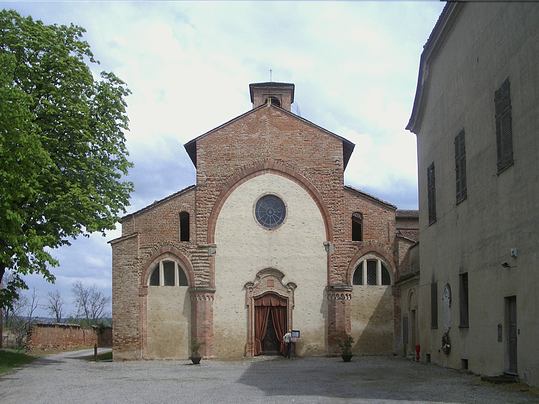 Rivalta Scrivia, Saint Mary’s Abbey”, the facade